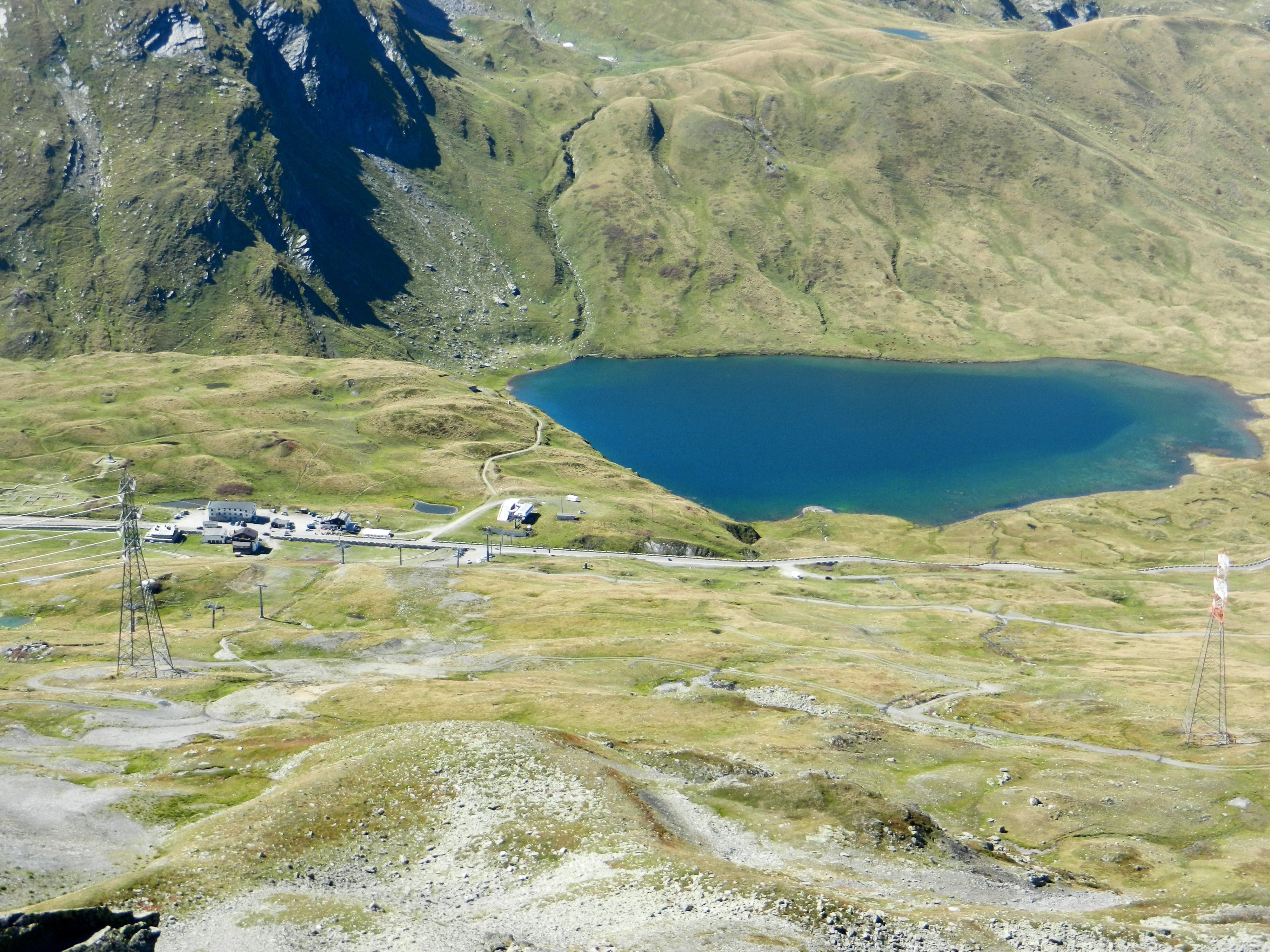 La Thuile (Aosta Valley, Italy), Verney Lake near Little St. Bernard Pass